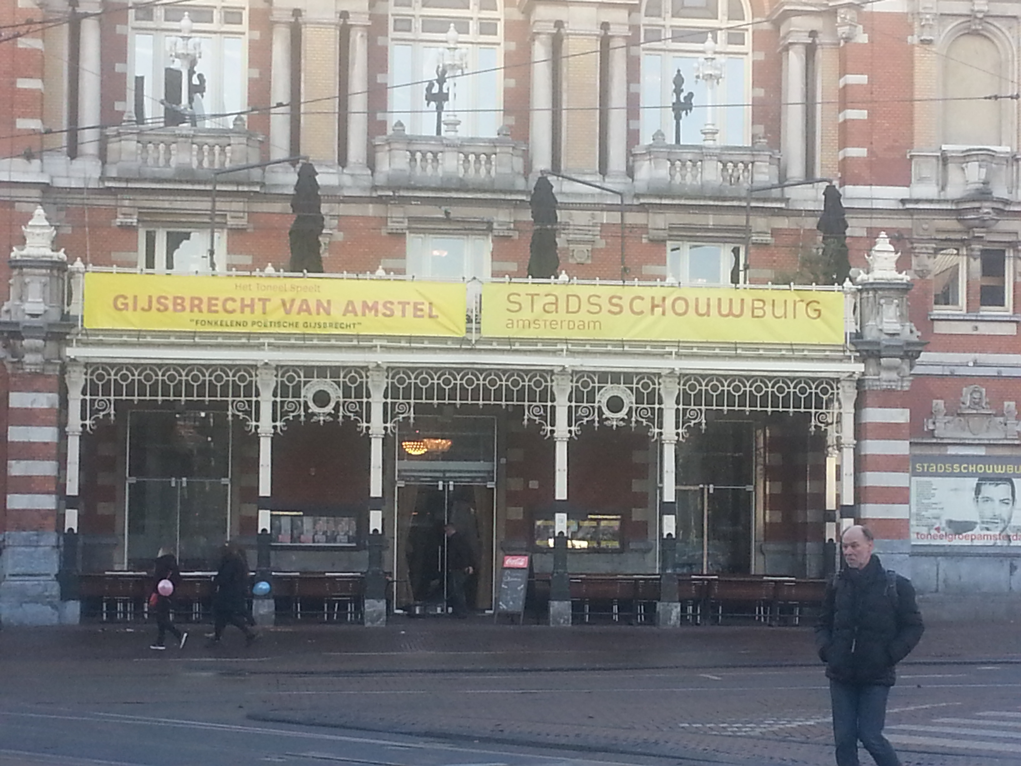 Announcement of gijsbrecht performance in Amsterdam theater